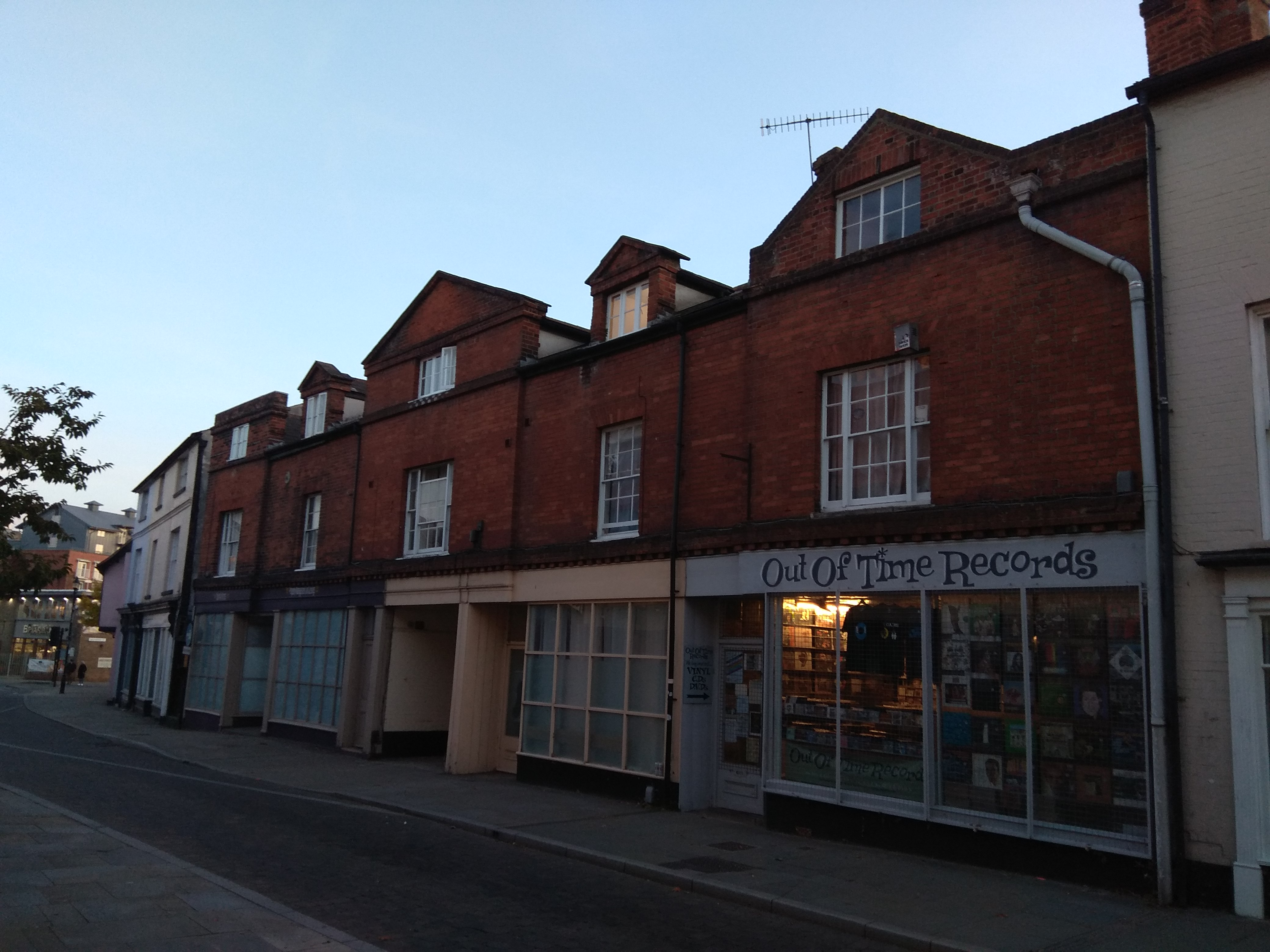 46-52, Fore Street Wikidata has entry Q26555255 with data related to this item.